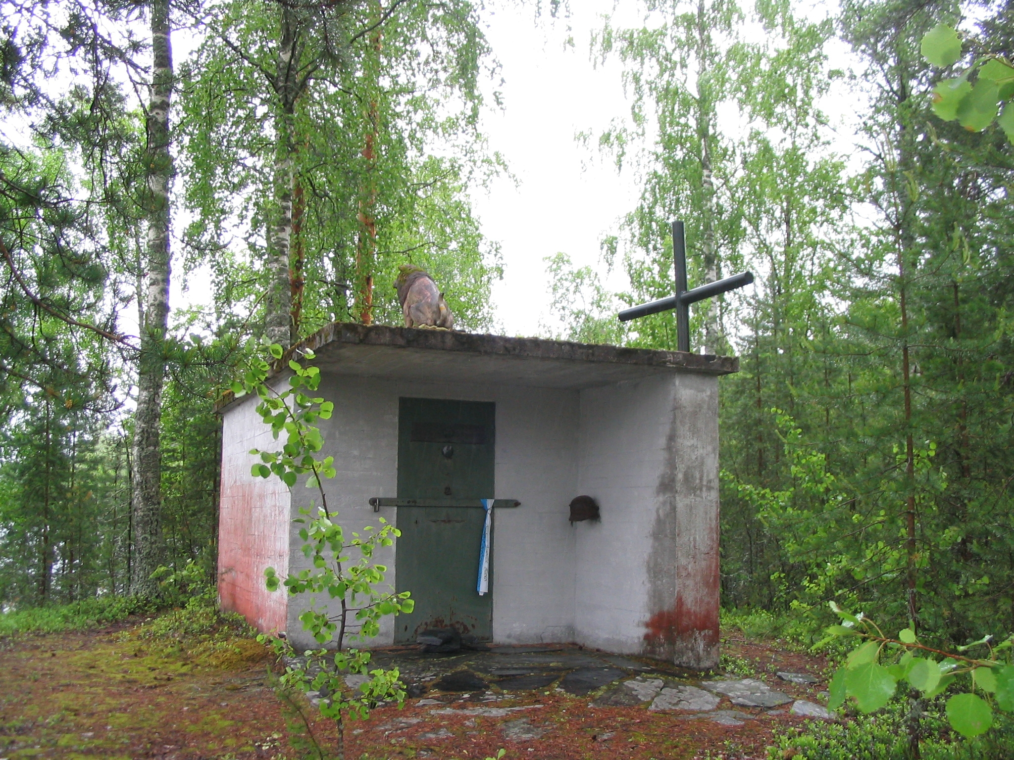 The grave of Finnish independence activist Jussi Reinikainen (1889–1969) in Iivanansaari, Rautjärvi, Finland